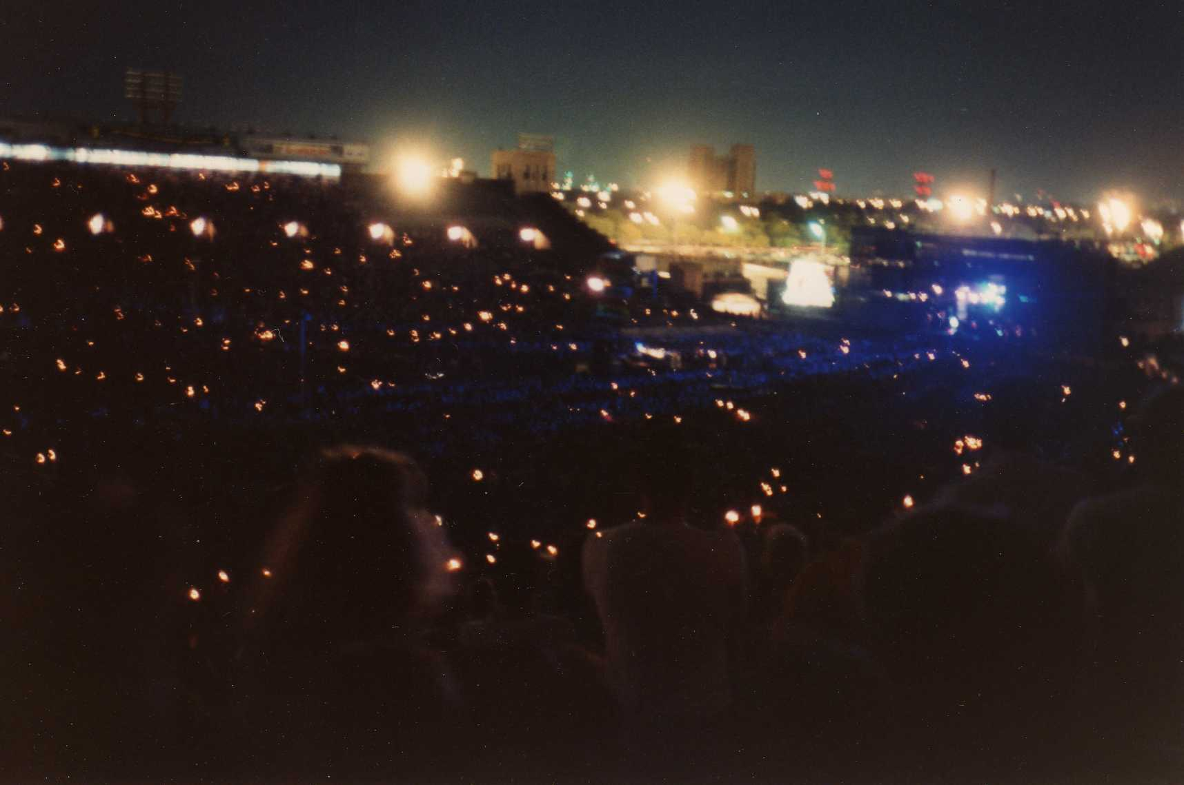 Scene during the main sets at Amnesty International's Human Rights Now! concert at the John F. Kennedy Stadium in Philadelphia